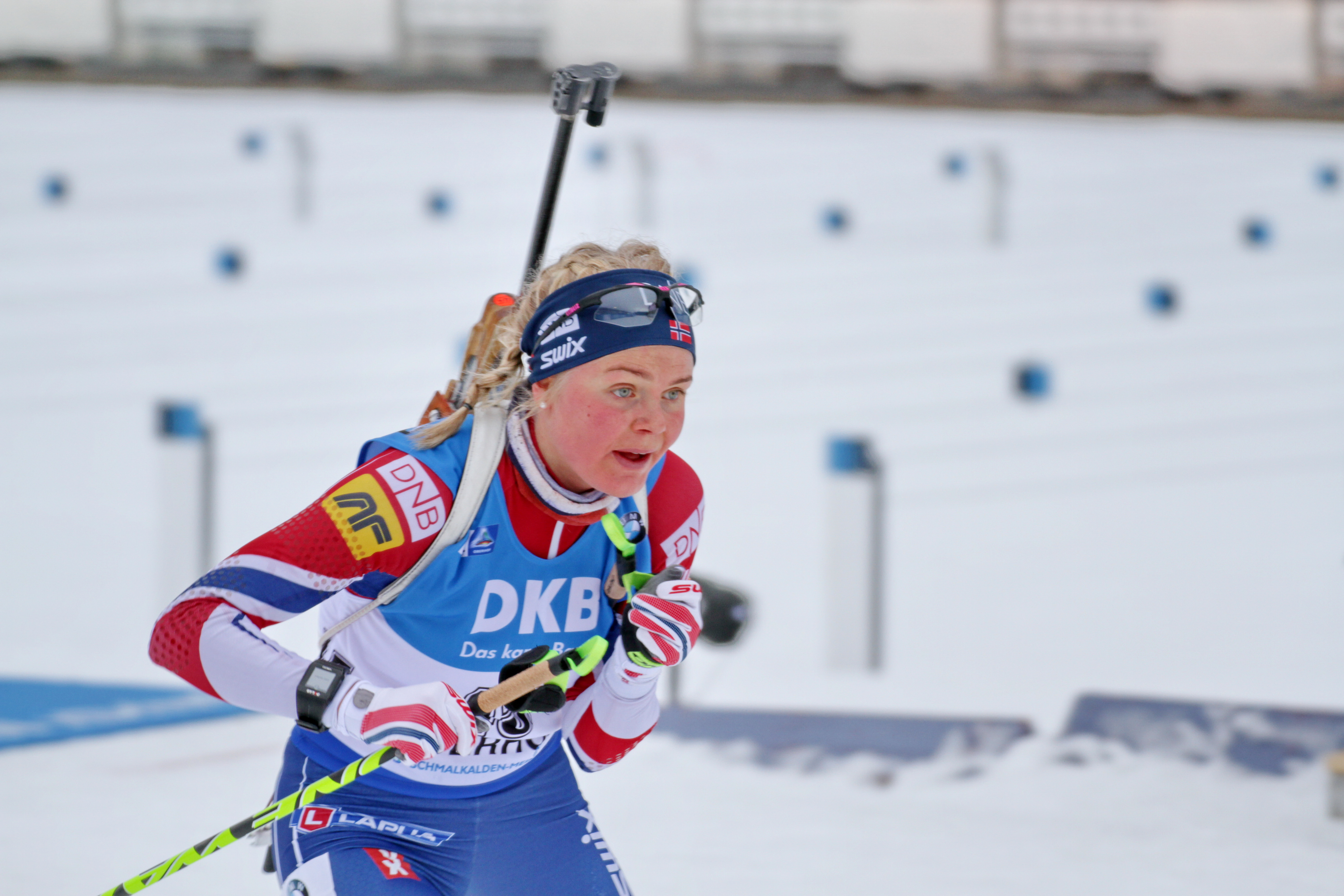 2018 Oberhof Biathlon World Cup - Sprint Women